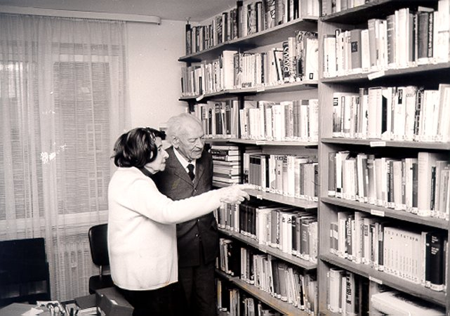 Else Levi-Mühsam and Erich Bloch (Schriftsteller), photographed in their library